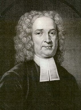 Engraving from portrait of Rev. John Cotton (1584-1652). (It also might be Rev. John Cotton’s grandson, Josiah Cotton (1679-1756), Justice of the Peace in Plymouth, or a great grandson of Rev. John Cotton, John Cotton (1693- ), the third minister of Newton, Massachusetts. See details for additional information: RESEARCH INTO PORTRAIT/S OF REV. JOHN COTTON.